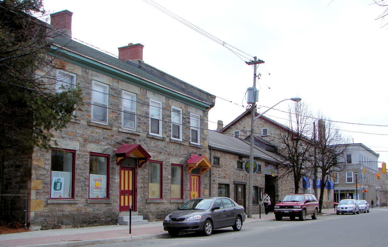 Perth, Ontario, Canada